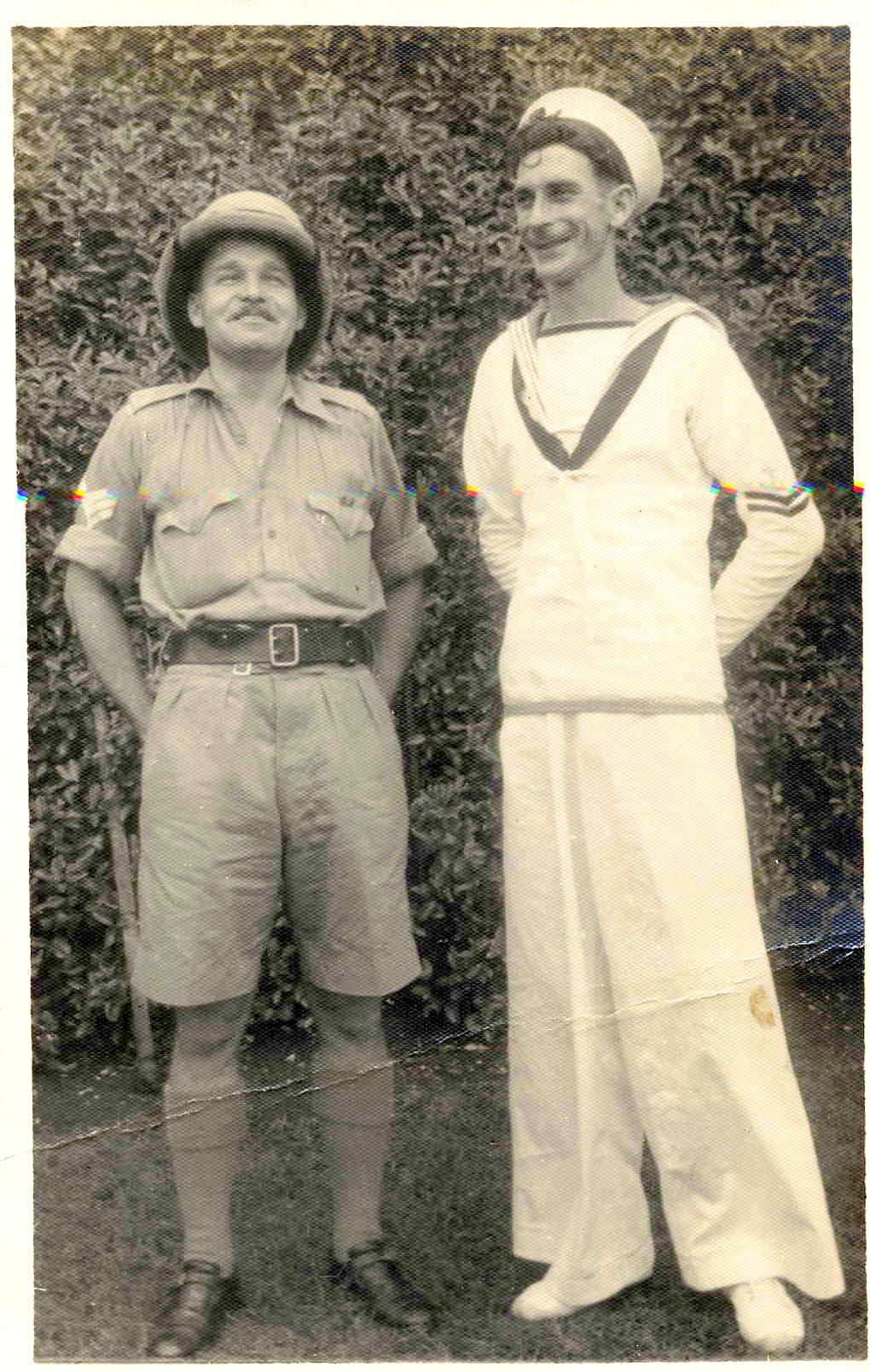 1941: August. Bombay. Photo taken at Breach Candy. Sailor (right) and soldier from 4th Indian Division awaiting embarkation to Port Sudan